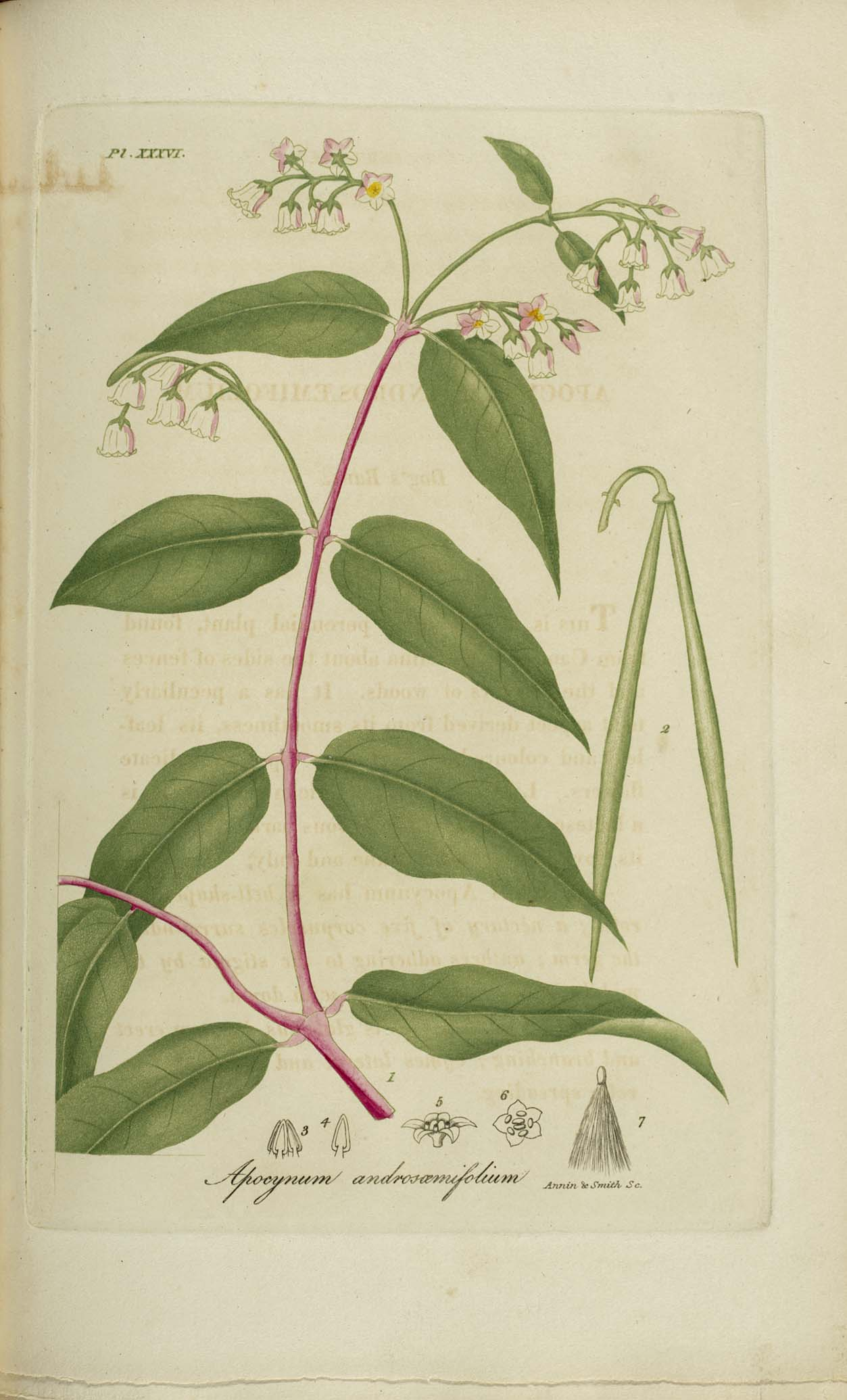 Plate illustration from: Jacob Bigelow. American medical botany: being a collection of the native medicinal plants of the United States. Boston: Cummings and Hilliard, 1817-1820. 3 volumes.